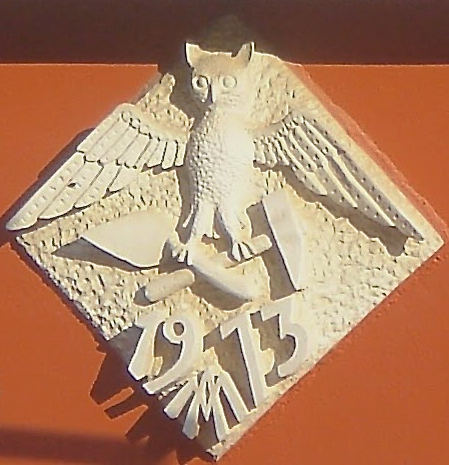 This is a carved stone relief made in 1973 by the sculptor Aristeidis Metallinos. It is attached to the front wall of the house he built as a museum to house his work in the village of Ano Korakiana, on Democracy Street in the village of Ano Korakiana, Corfu, Greece